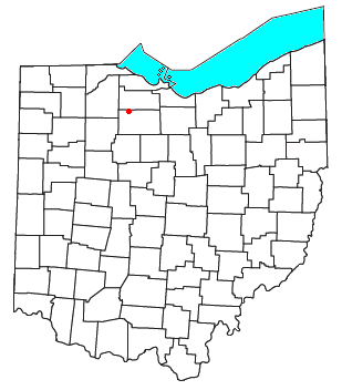 Locator map of the unincorporated community of Kansas in Seneca County, Ohio, United States.